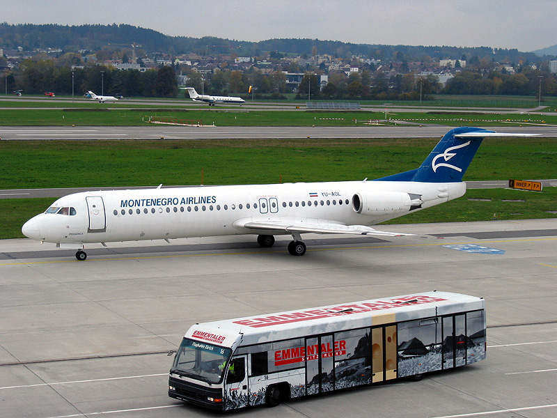 Montenegro Airlines Fokker 100 (YU-AOL) at Zurich International Airport in Switzerland